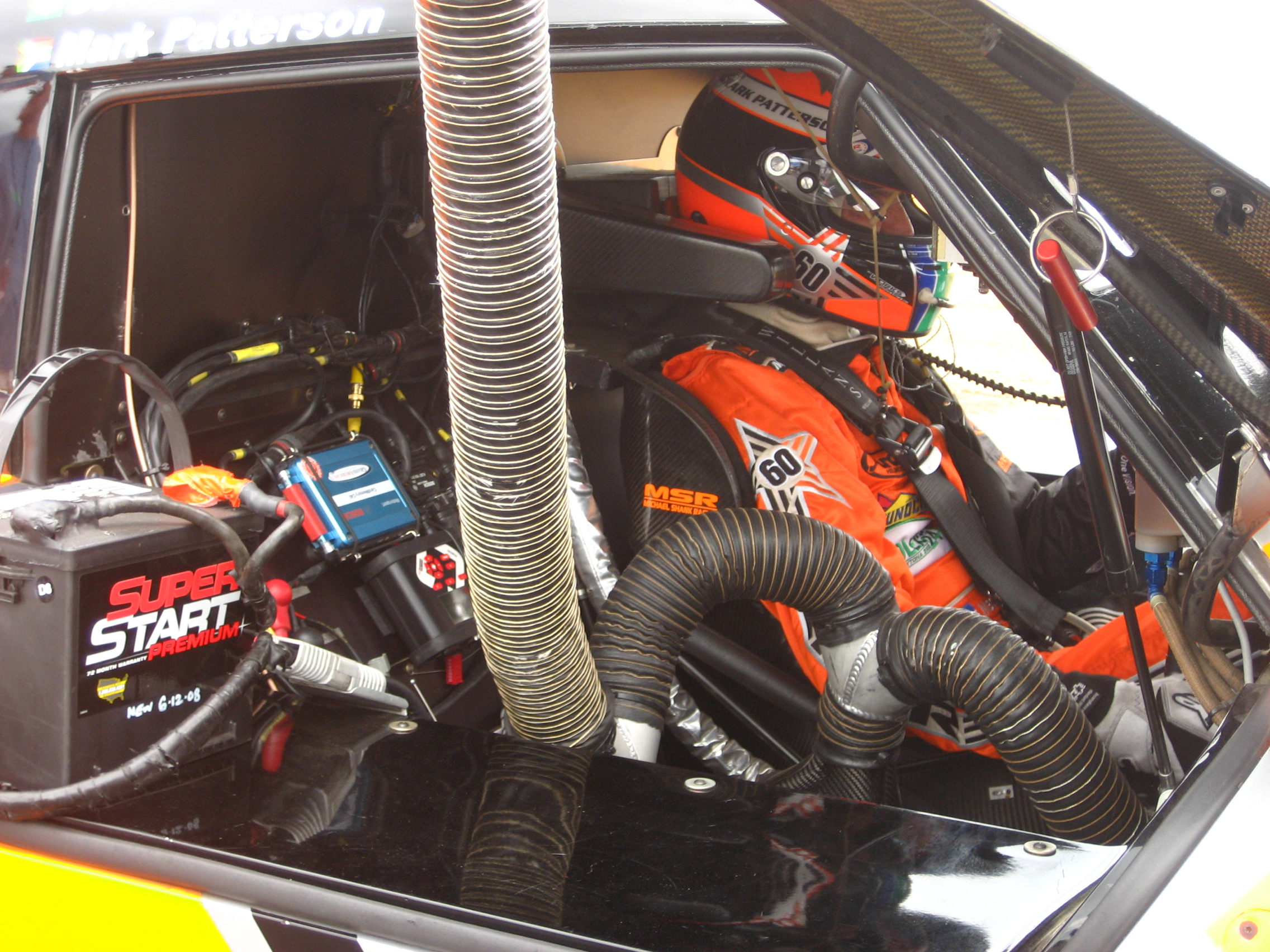 Mark Patterson sitting in Michael Shank Racing's Riley Ford at the 2008 Supercar Life 250 at New Jersey Motorsports Park.